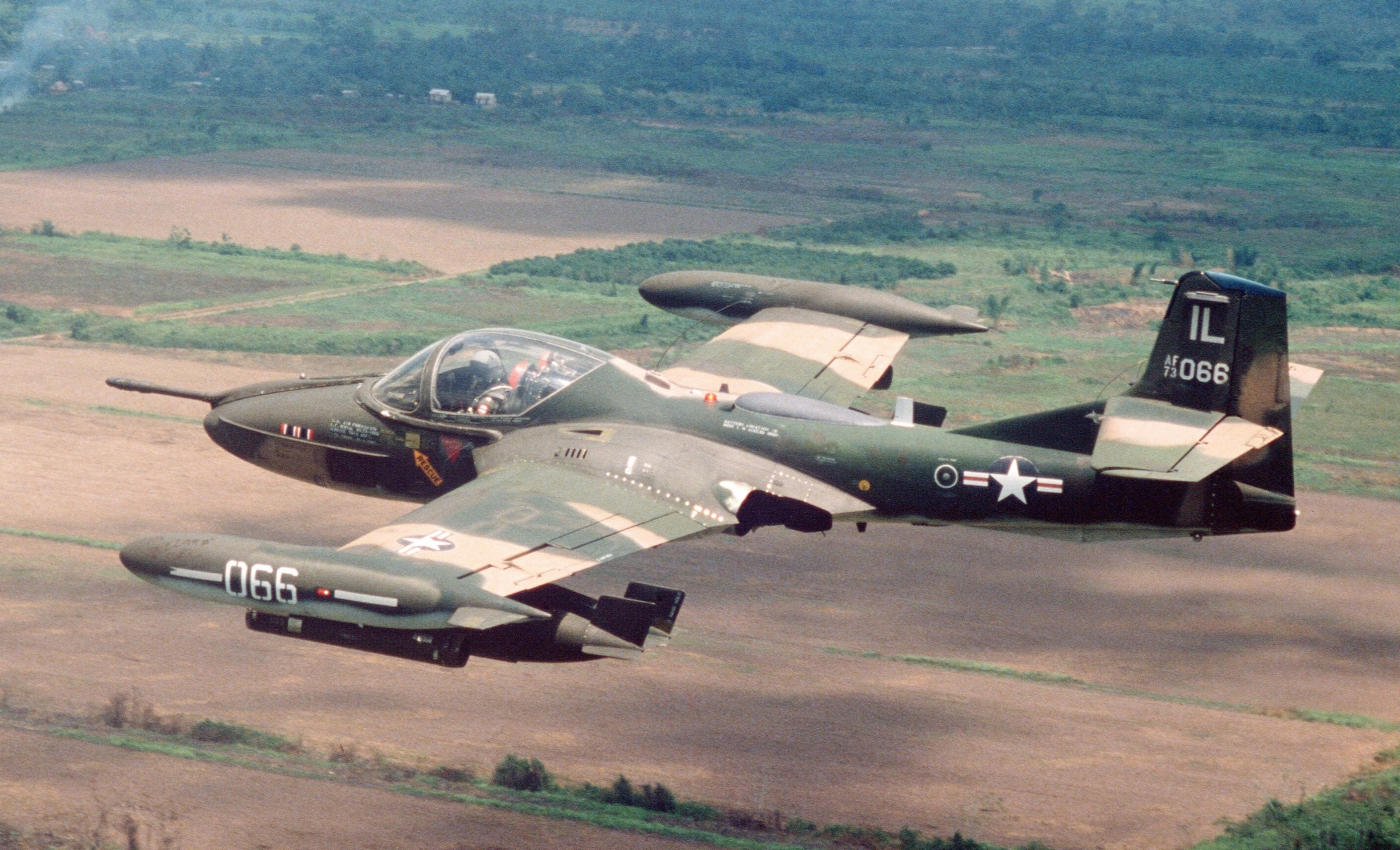 An air to air left side view of an OA-37B Dragonfly aircraft from the 169th Tactical Air Support Squadron, Illinois Air National Guard, during Exercise GRANADERO I